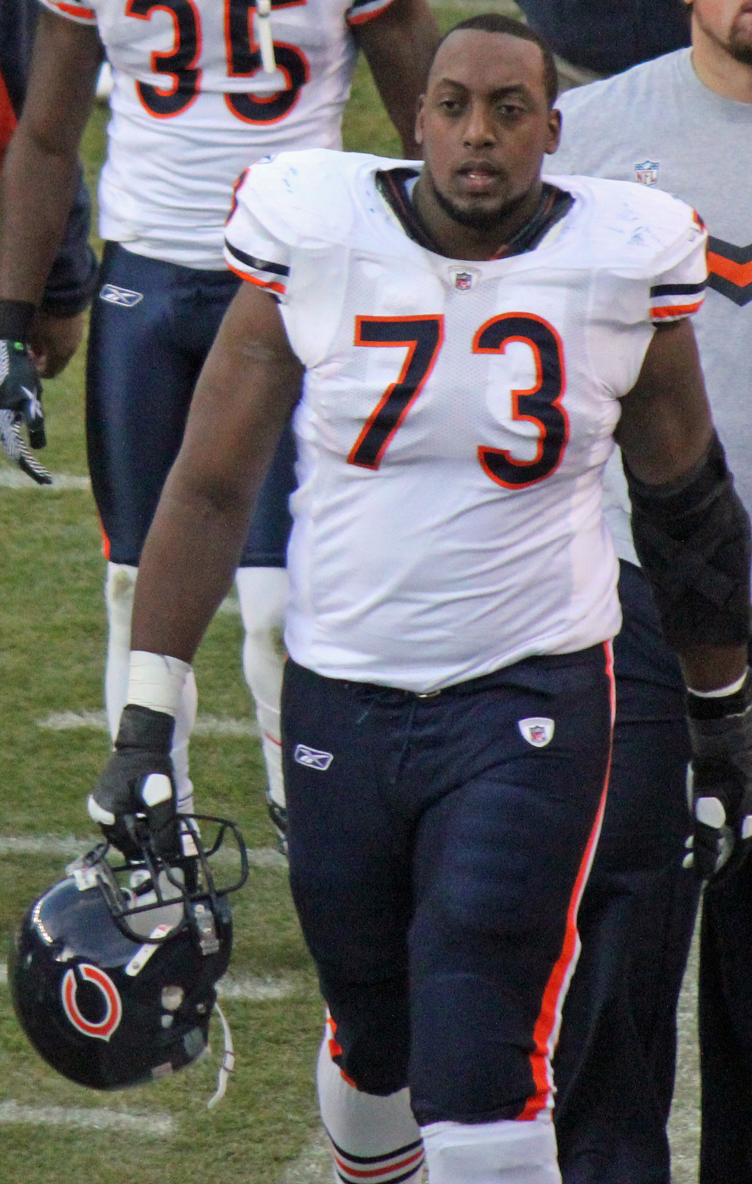 J'Marcus Webb, a player on the National Football League.